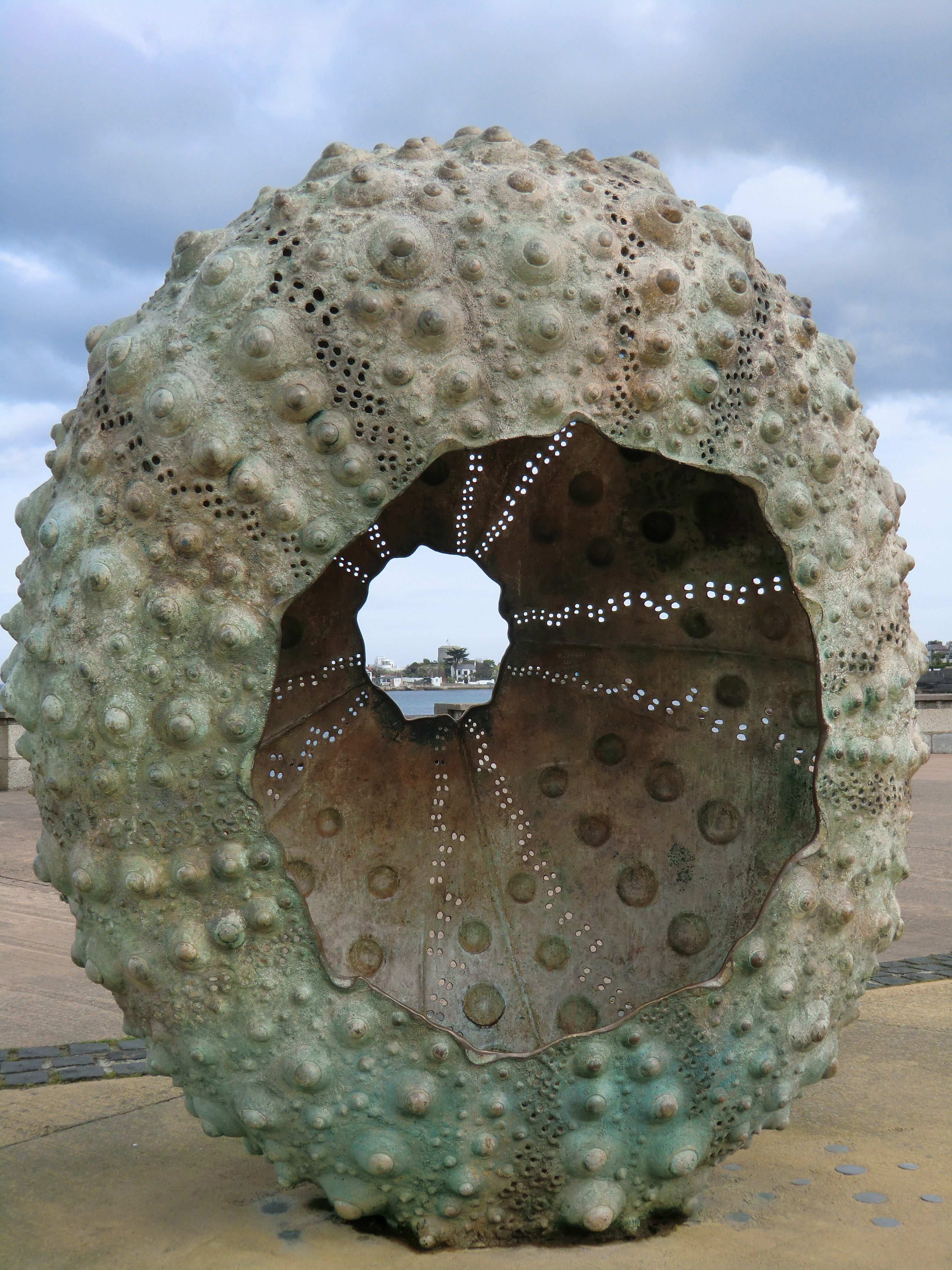 work of art ("Mothership" by Rachel Joynt) at the coastline in Glasthule, Dublin, Ireland. James Joyce Tower in the distance can be seen in the middle of the picture